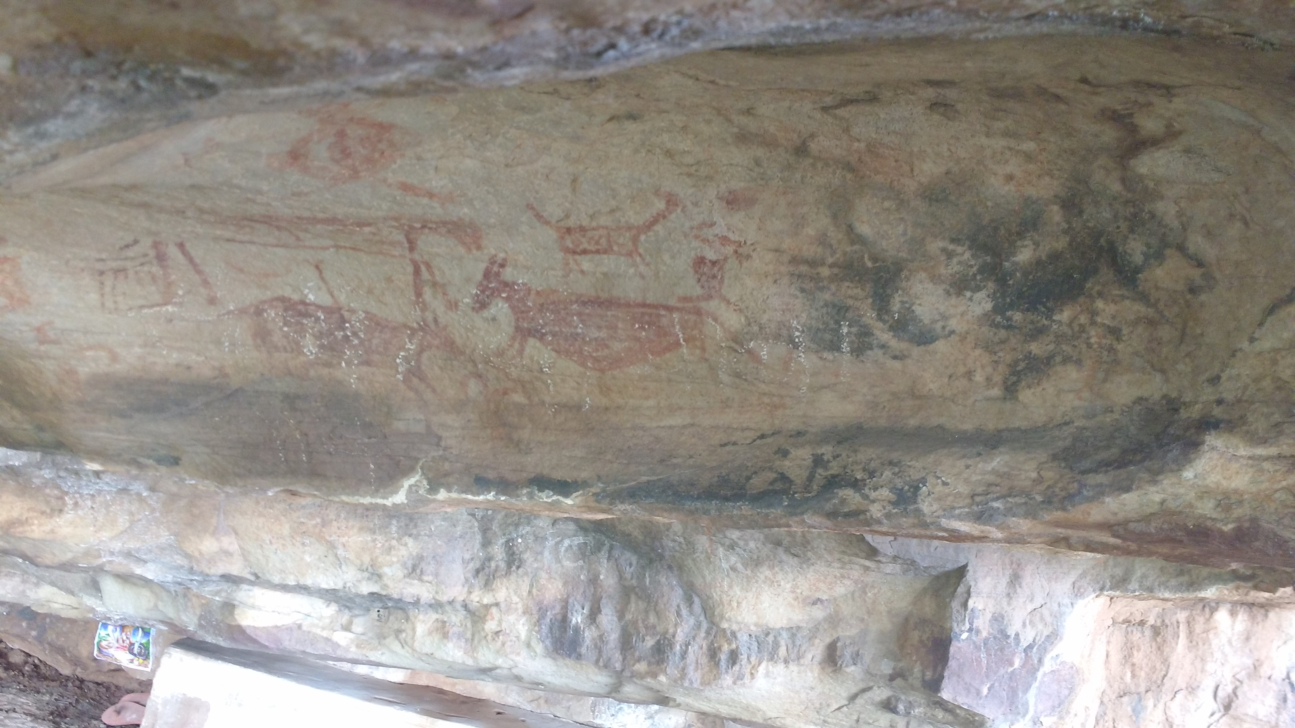 Pancmukhi and Painted rockshekters